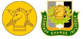 From the IMOH website.